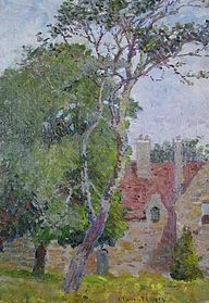 Emma Lampert Cooper - Stone House - made before her death in 1920